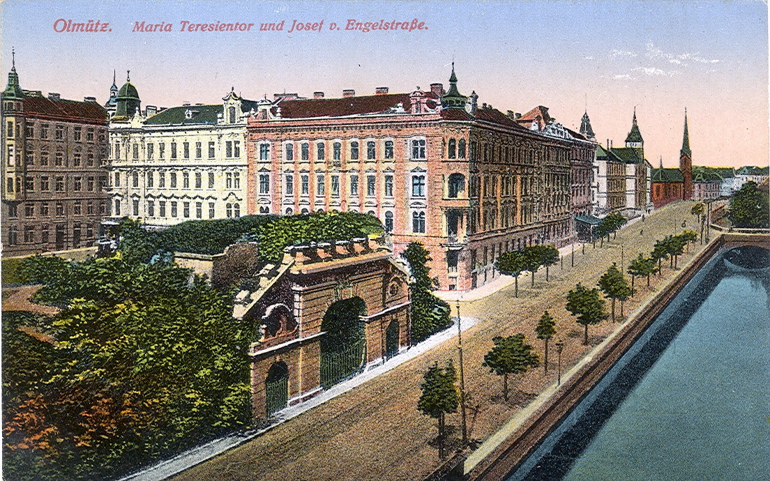 Postcard, undated ( ca.1914 ). Title: "Olomouc - Maria Theresia-gate and v.Engel-street."